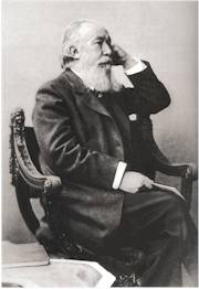 German opera singer Julius Stockhausen (1826—1906)